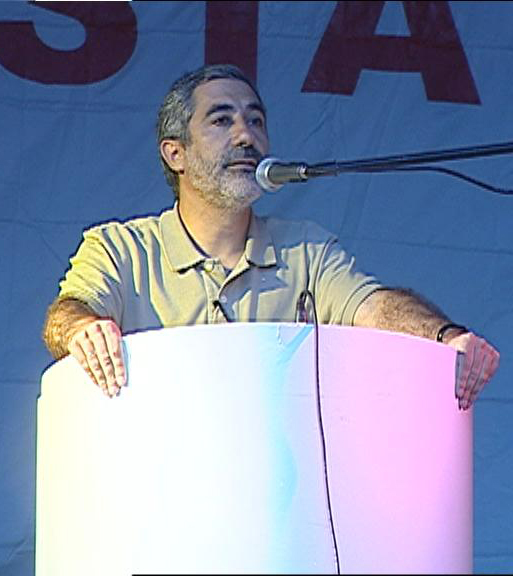 Gaspar Llamazares Trigo in a meeting of the Asturian Communist Party (PCA) (Asturies - Spain)